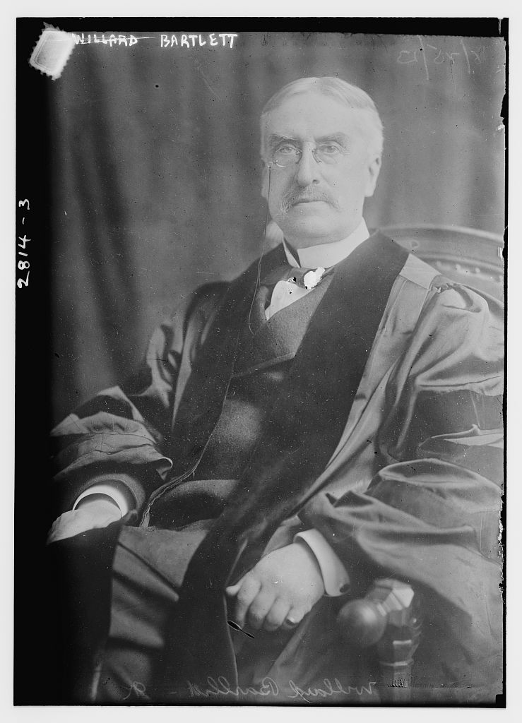 Bain News Service, publisher. Willard Bartlett [between ca. 1910 and ca. 1915] 1 negative : glass ; 5 x 7 in. or smaller. Notes: Title from unverified data provided by the Bain News Service on the negatives or caption cards. Forms part of: George Grantham Bain Collection (Library of Congress). Format: Glass negatives. Repository: Library of Congress, Prints and Photographs Division, Washington, D.C. 20540 USA, General information about the Bain Collection is available at Persistent URL: Call Number: LC-B2- 2814-3